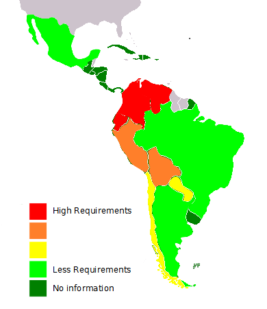 Modification of Map-Latin_America2.png for showing wastewater discharge norms